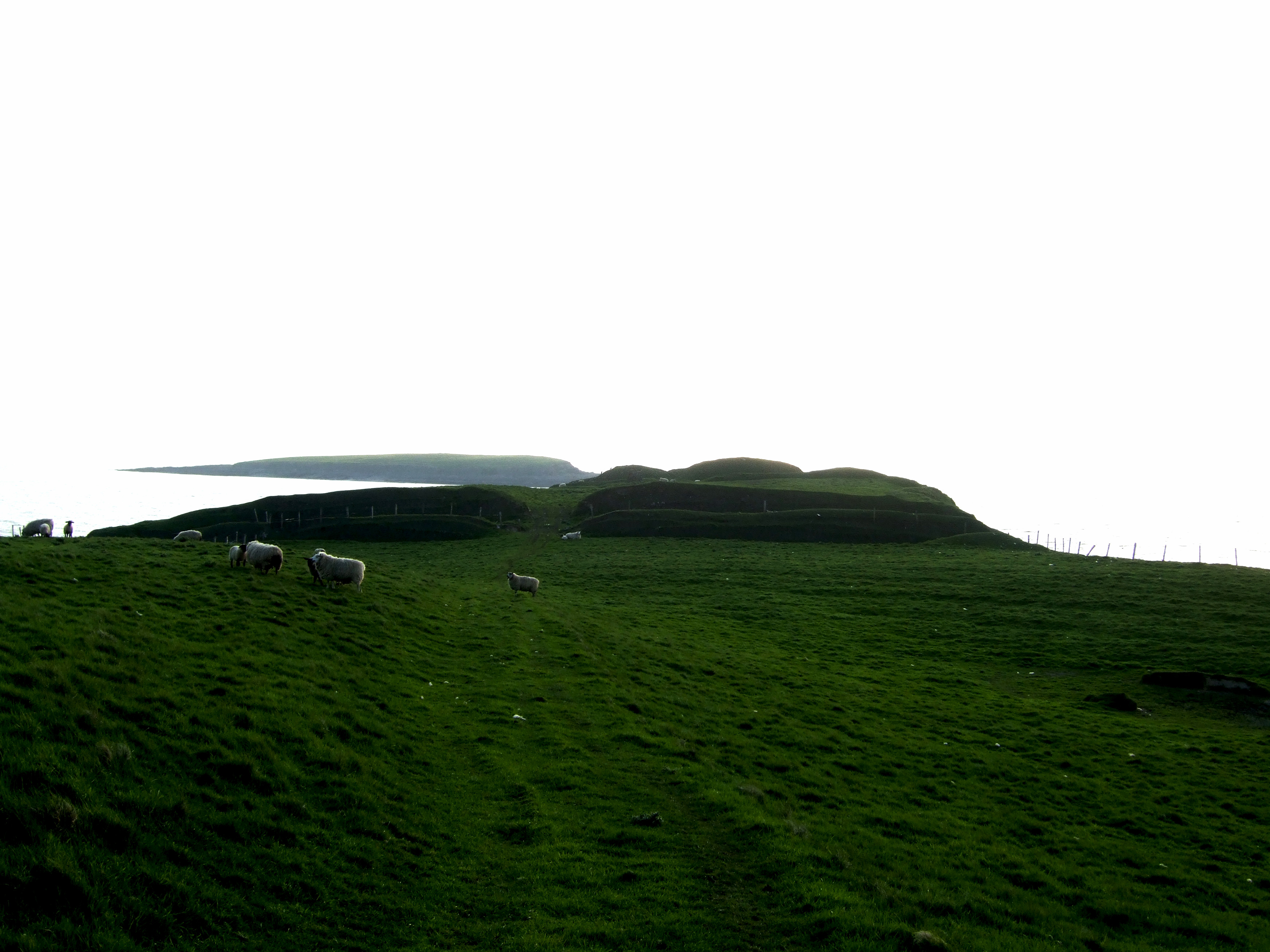 Facing west, in the direction of the eastern entrance to the fort